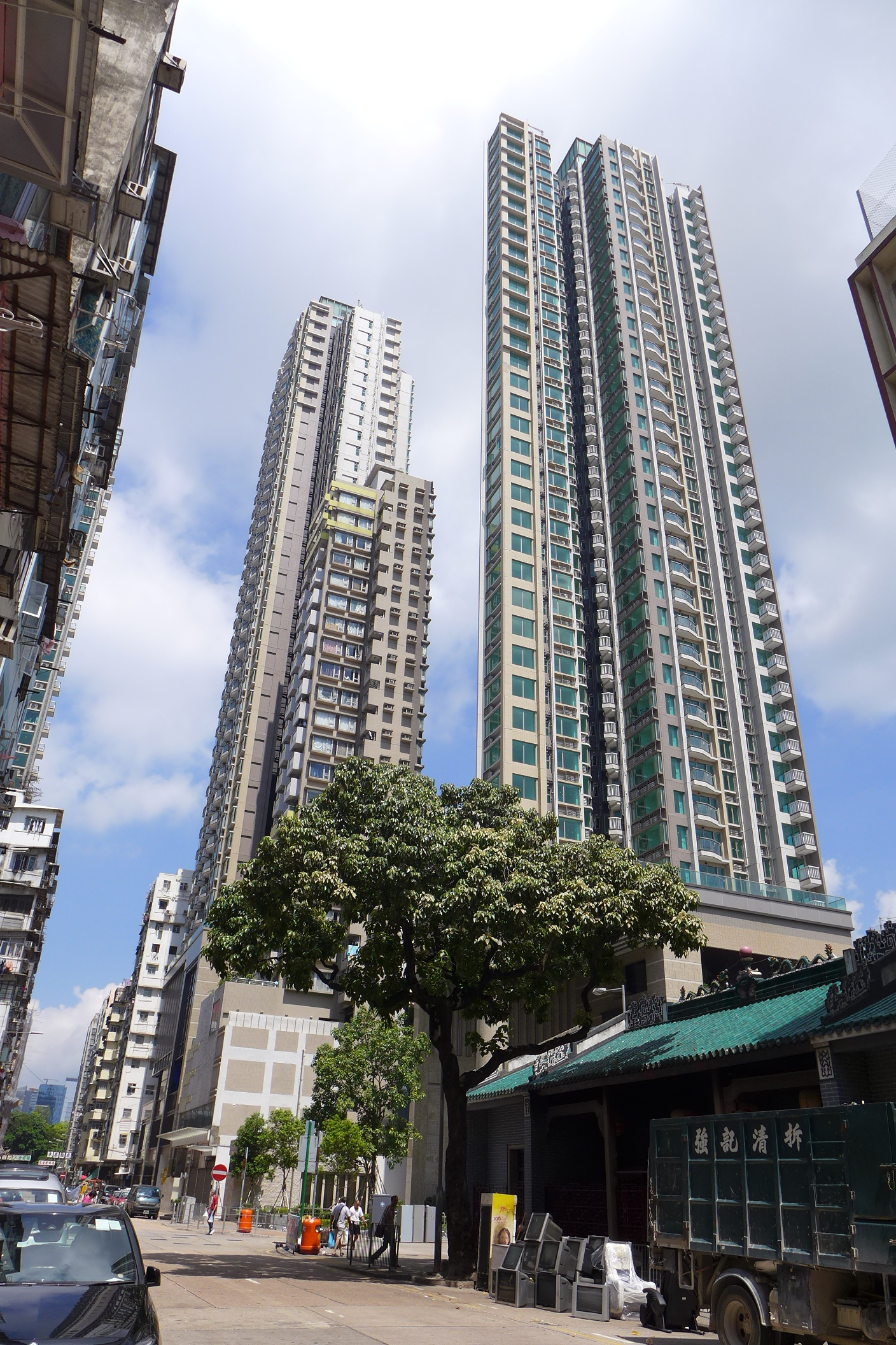 Trinity Towers